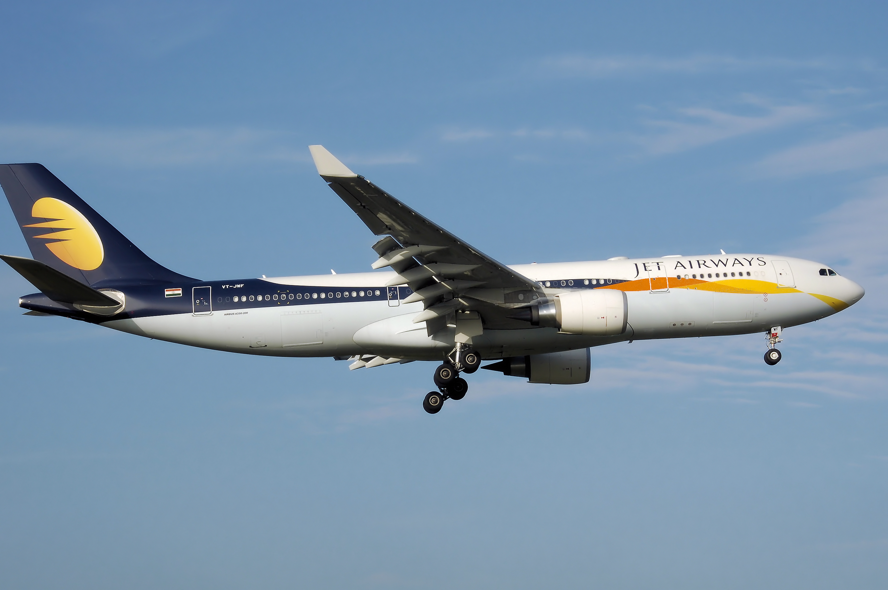 Jet Airways Airbus A330-200 (VT-JWF) lands at Birmingham International Airport, England.